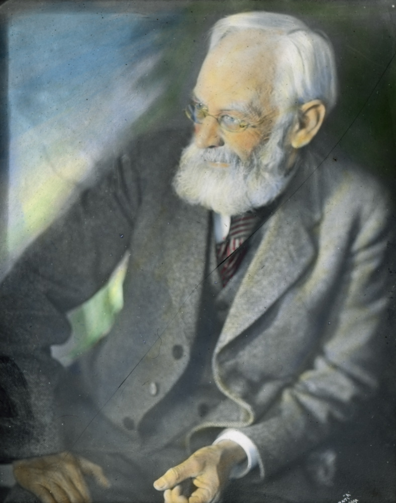 Håndkolorert dias. Portrett av maleren Erik Werenskjold.